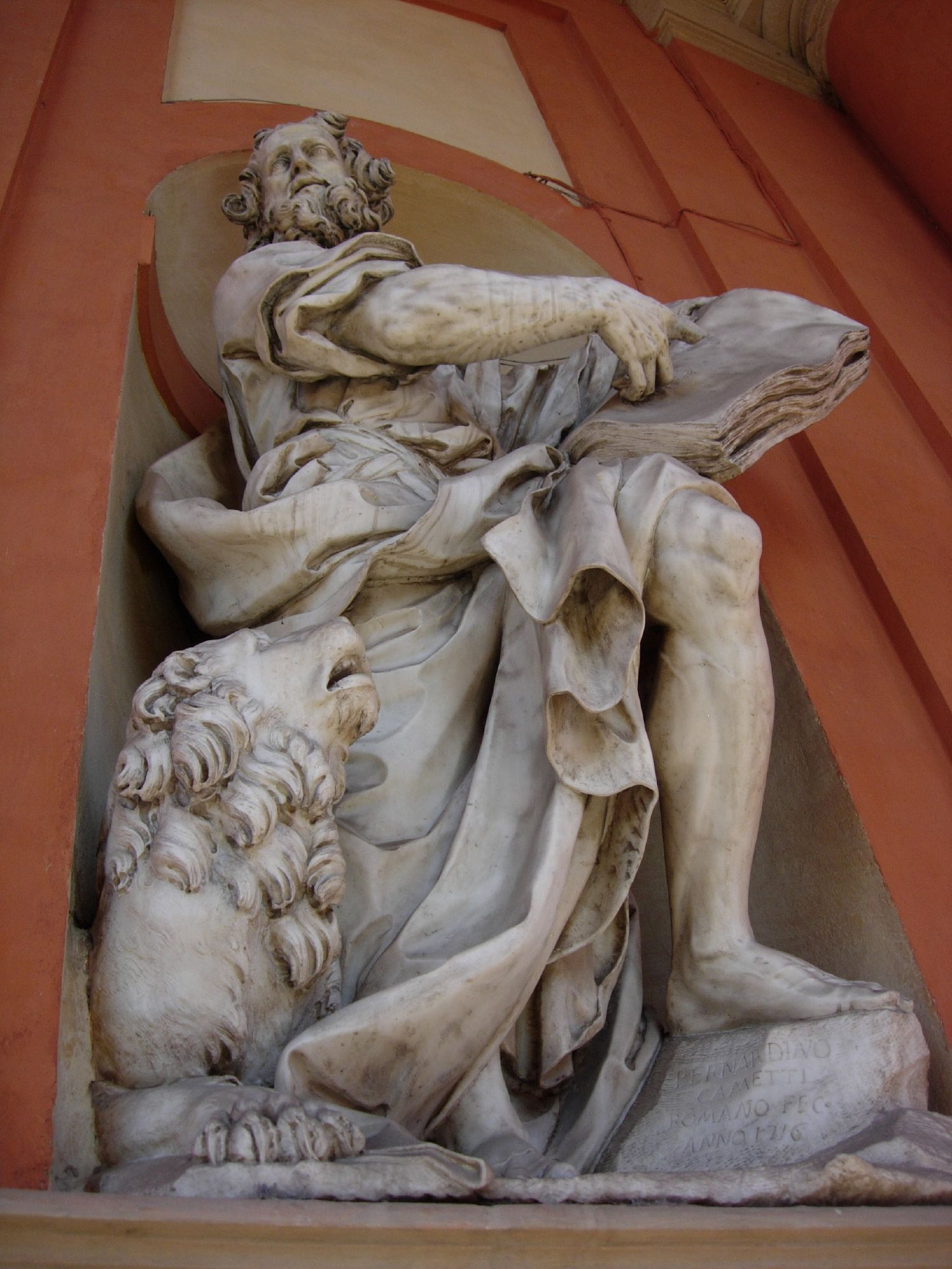 Statue of S. Mark in the Santuario of Beata Vergine di S. Luca (Bologna)